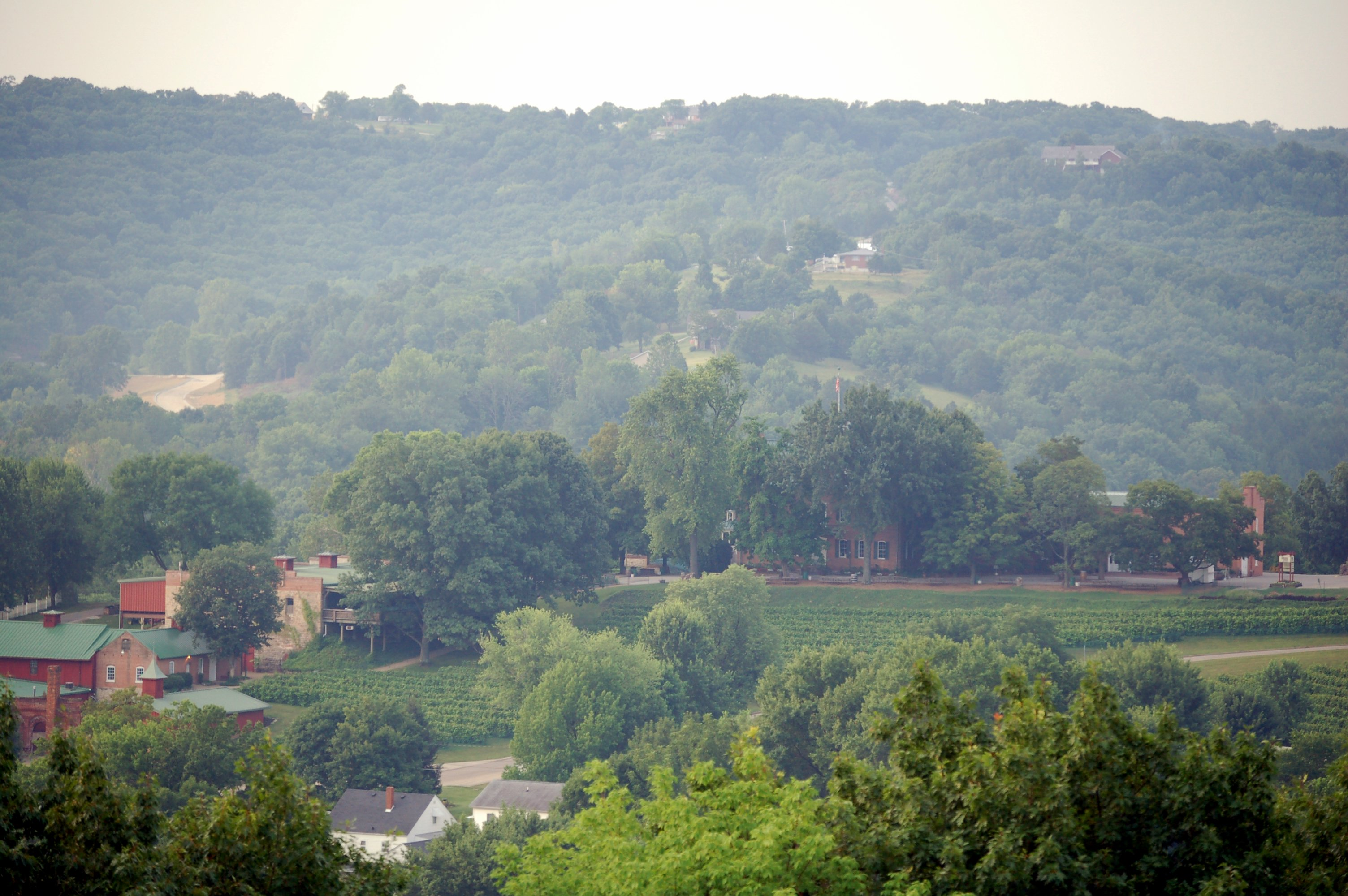 Missouri winery Stone Hill Winery in the lower left corner with vineyards and the greater Hermann AVA among the Ozark hills.